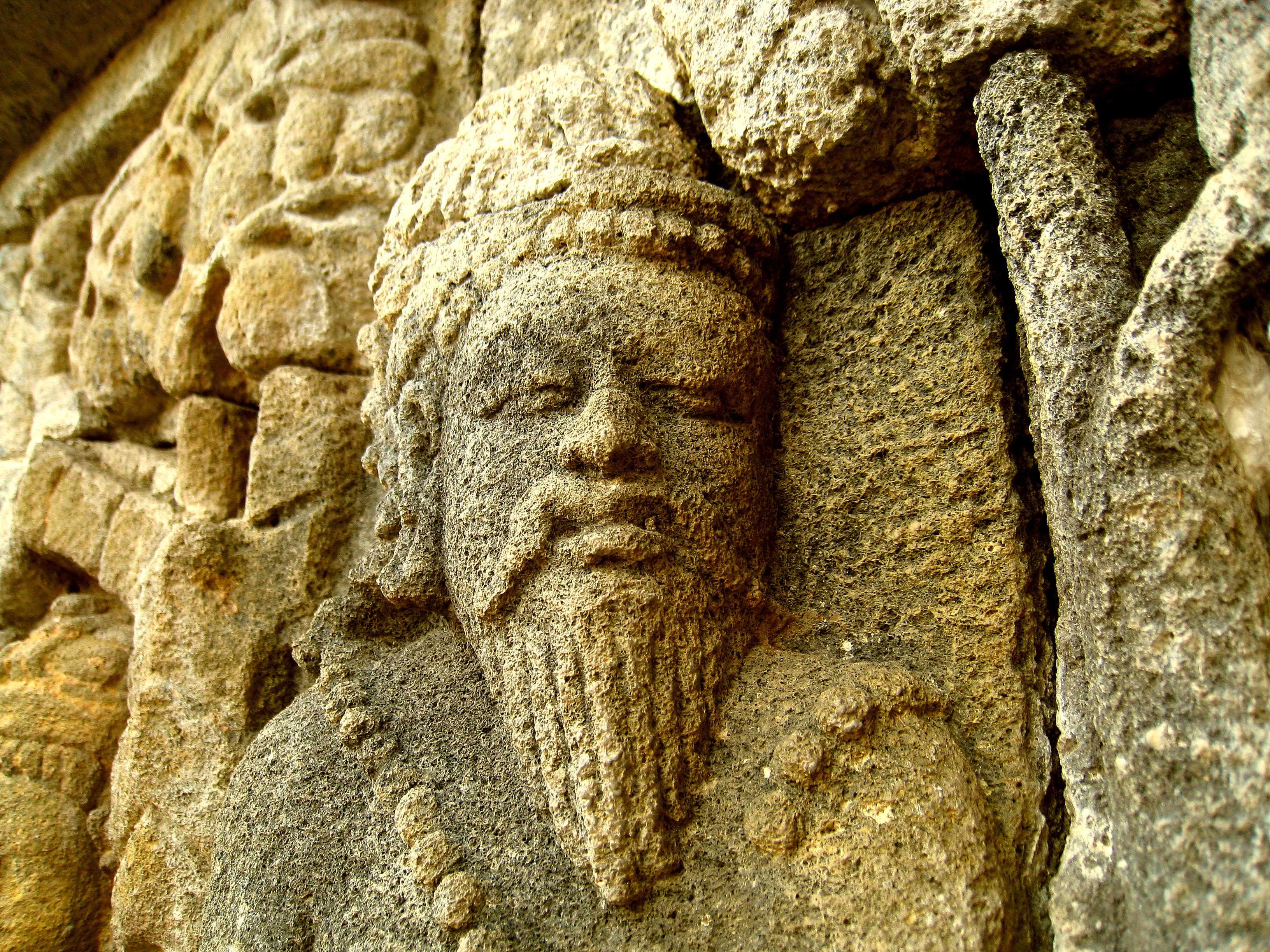 100 W-72, Arada Kalama offers the Bodhisattva Joint Leadership, Arada (detail) at Borobudur Photograph of a Lalitavistara relief at Borobudur in Java, Indonesia taken by Anandajoti.